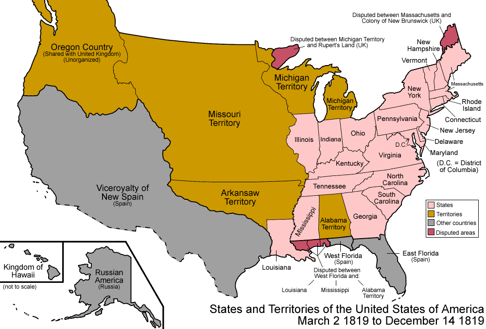 Map of the states and territories of the United States as it was from March 1819 to December 1819. On March 2 1819, Arkansaw Territory was organized. On December 14 1819, Alabama Territory was admitted as the state of Alabama.